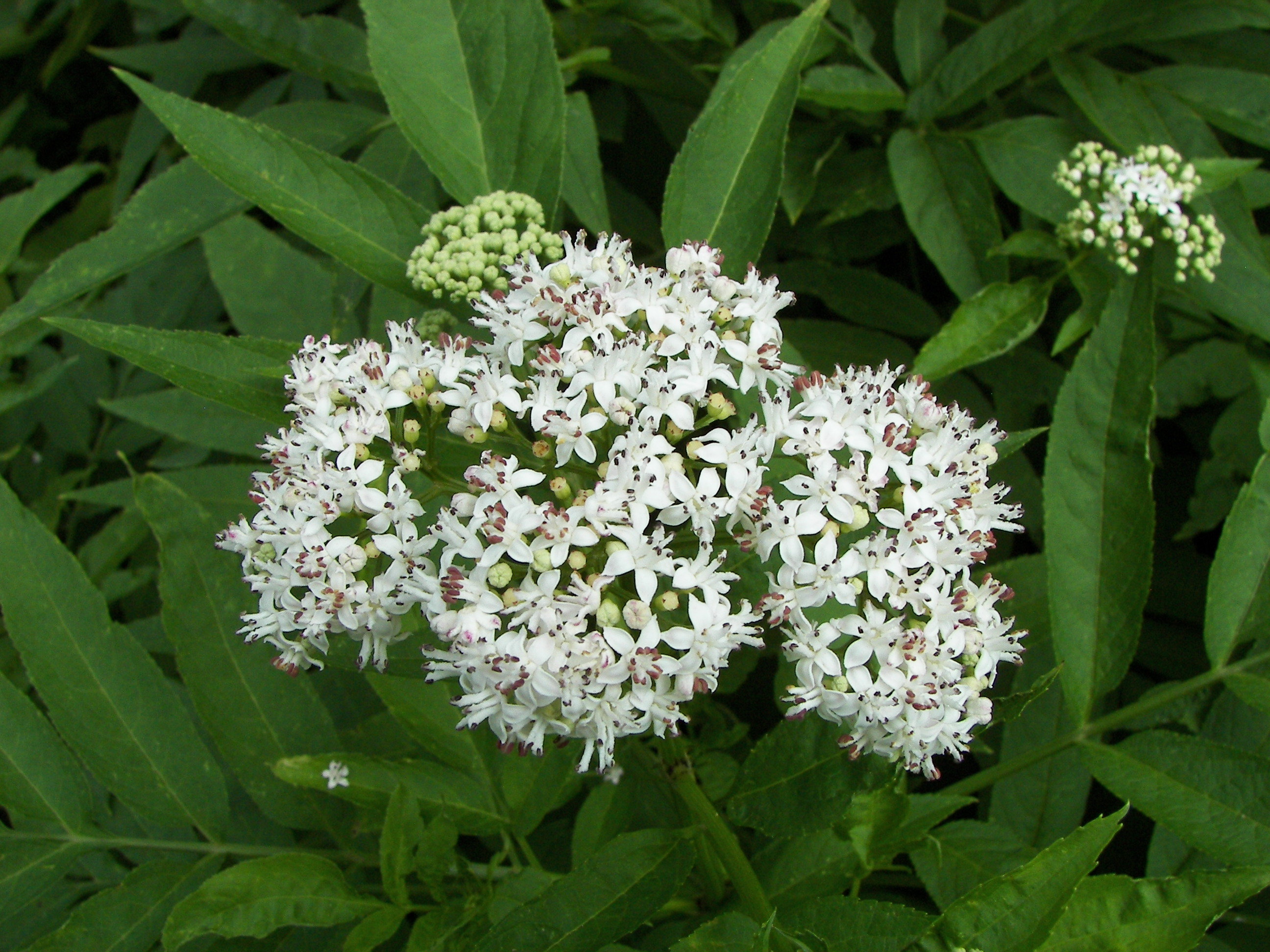 Danewort (Sambucus ebulus), Location: Botanical Garden Frankfurt, Hesse, Germamy